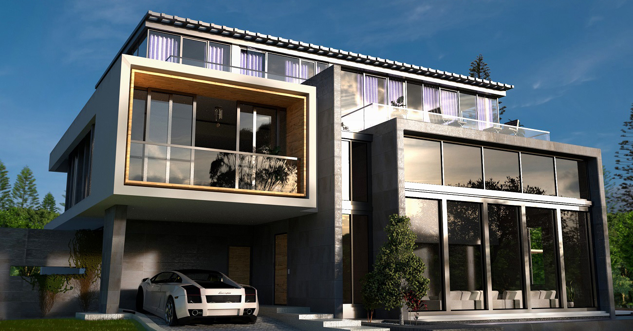 Architectural render made in blender